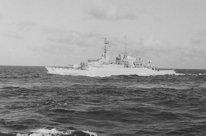 HMS Avenger en route to the Falklands War as part of the Bristol Group in 1982